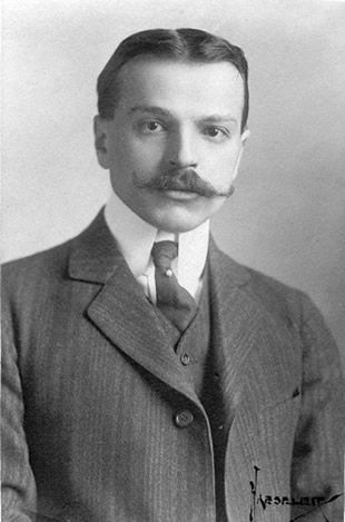 Portrait of architect Paul Philippe Cret, 1910, by Haeseler